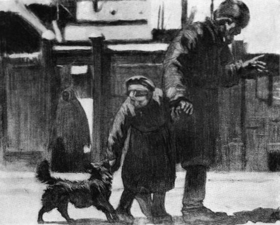 Kashtanka.